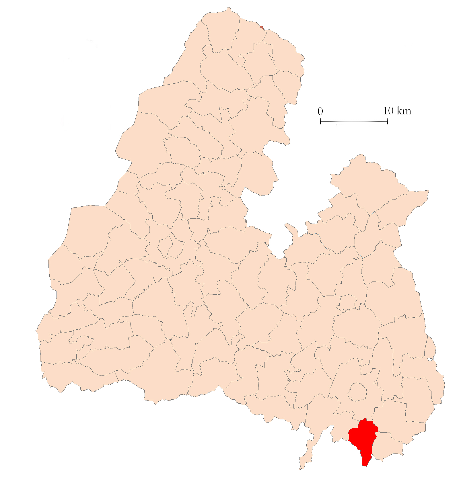 Outline map of North Tipperary, highlighting the extent of Moycarkey electoral division as it was at the time of the 2011 census